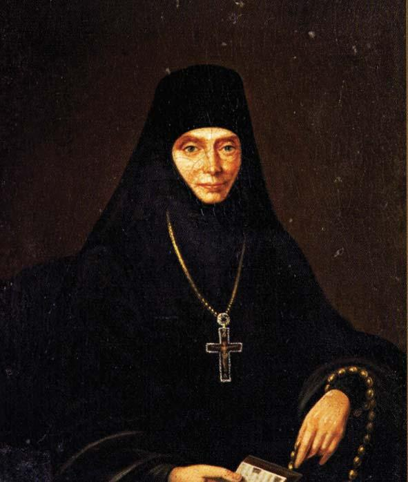 Igumeniya Maria (Tuchkova)